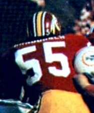 Washington Redskins linebacker Chris Hanburger pictured in a defensive play against the Miami Dolphins during Super Bowl VII.